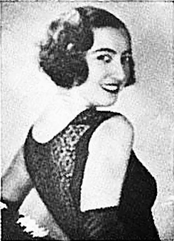 Jewish Polish composer Fanny Gordon (Fayge Yoffe)